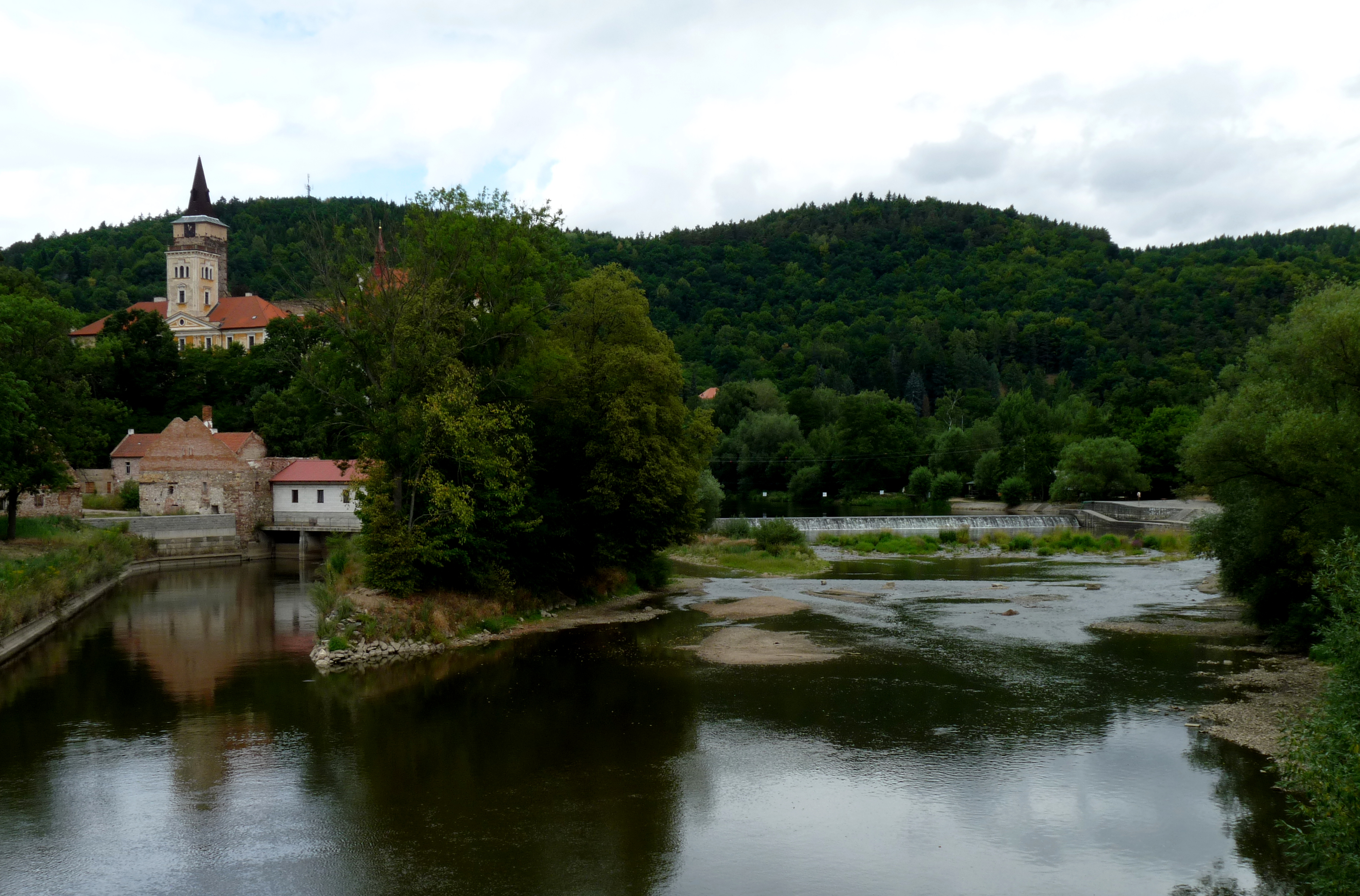 Budský weir on the Sázava River in the town of Sázava, Benešov District, Central Bohemian Region, Czech Republic, with Sázava Monastery on the left.